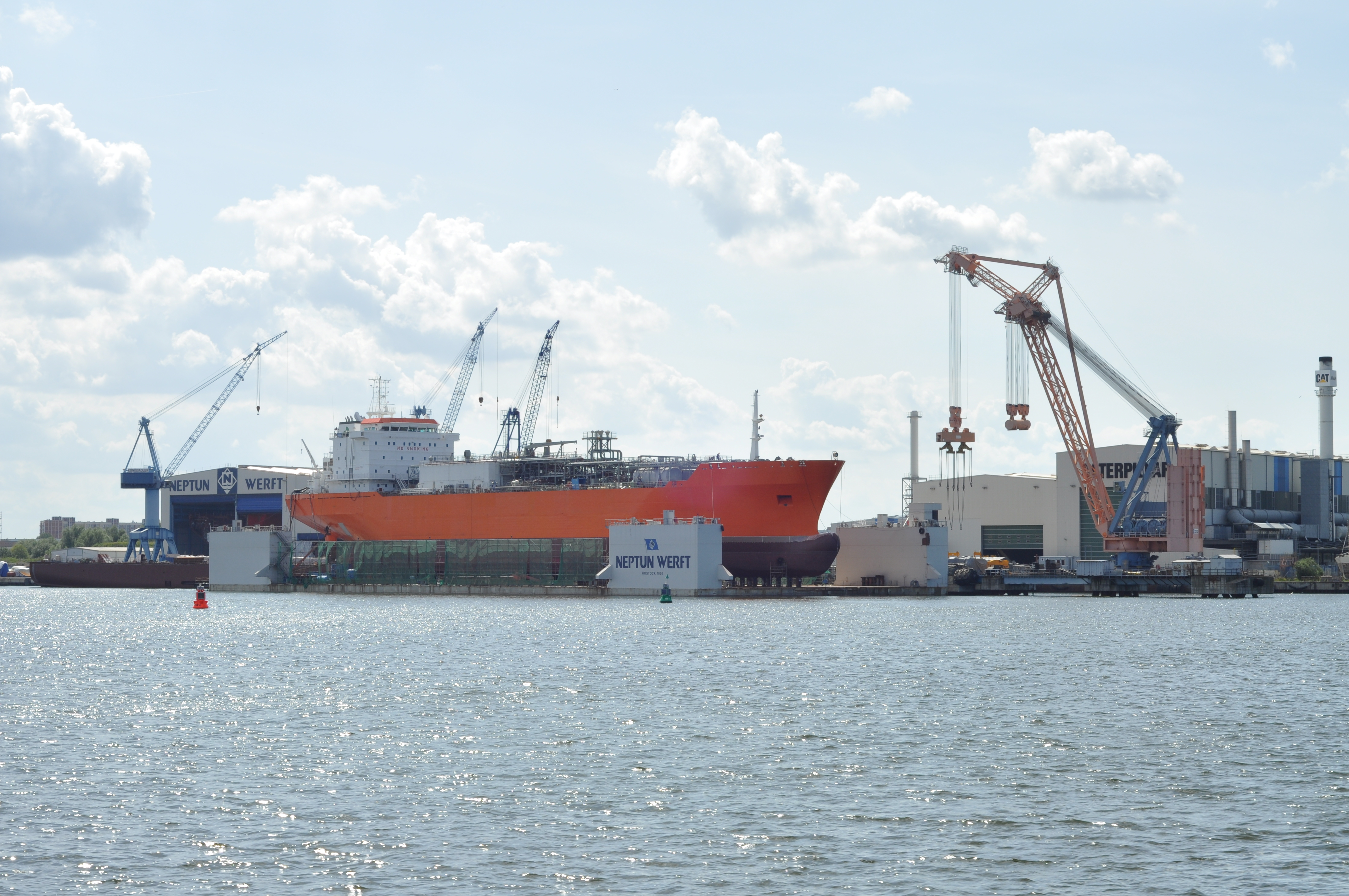 Picture of the German shipbuilding company Neptun Werft in Rostock.